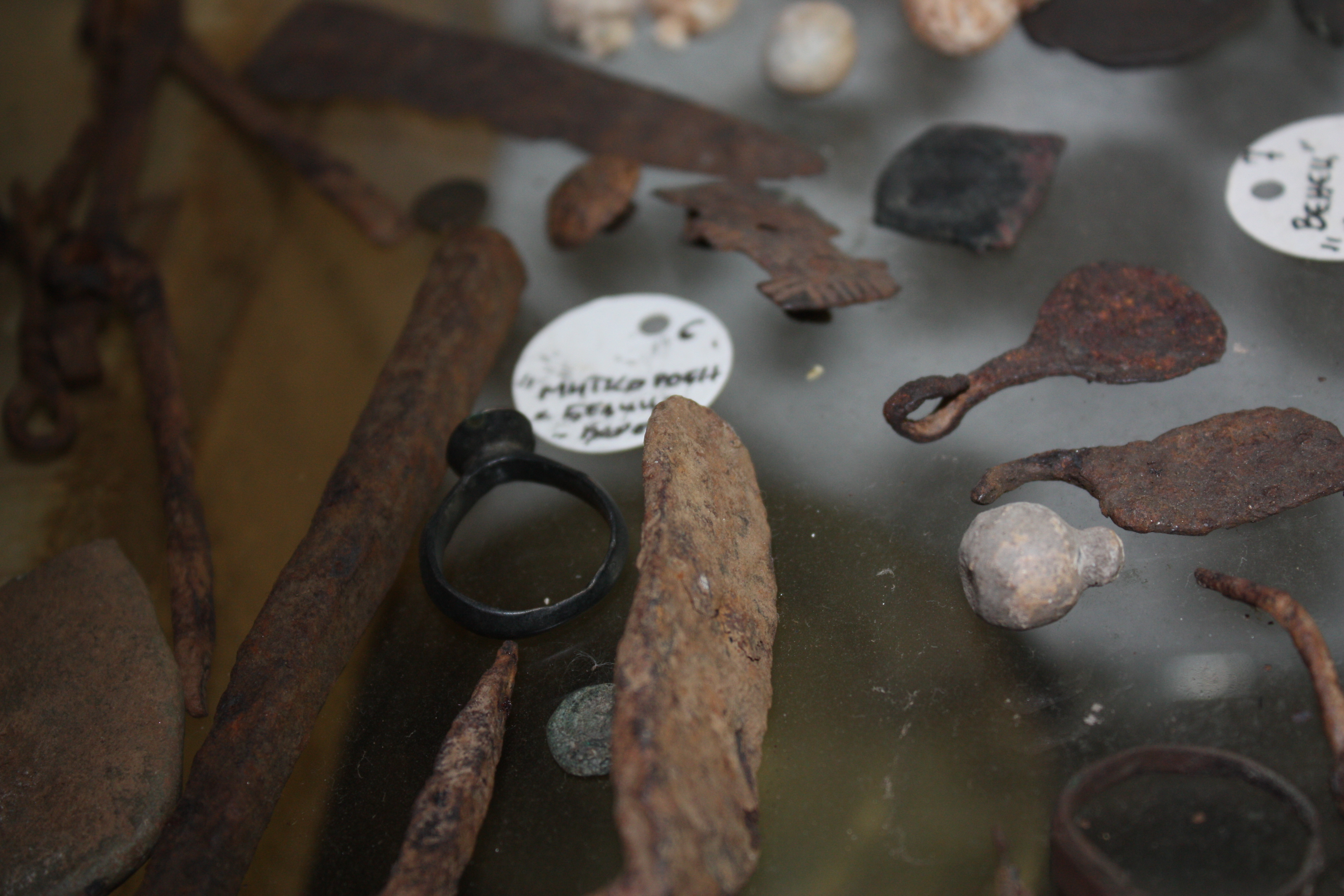 The World’s Smallest Ethnological Museum in Džepčište near Tetovo in Macedonia